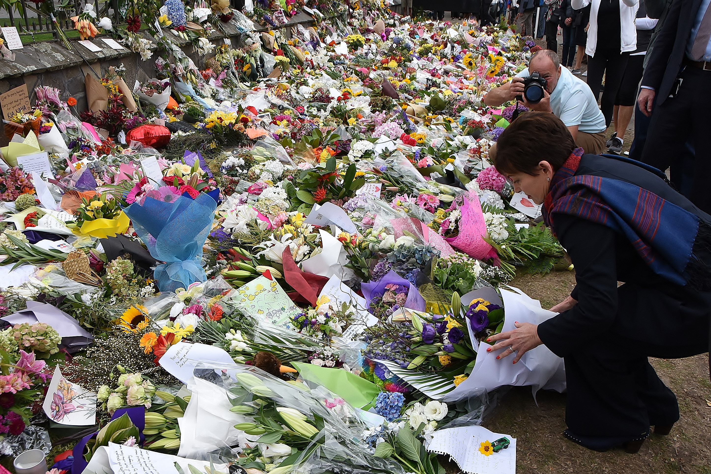 Governor-General of New Zealand, Dame Patsy Reddy, lays flowers for the victims of the Christchurch mosque shootings at Hagley Park.